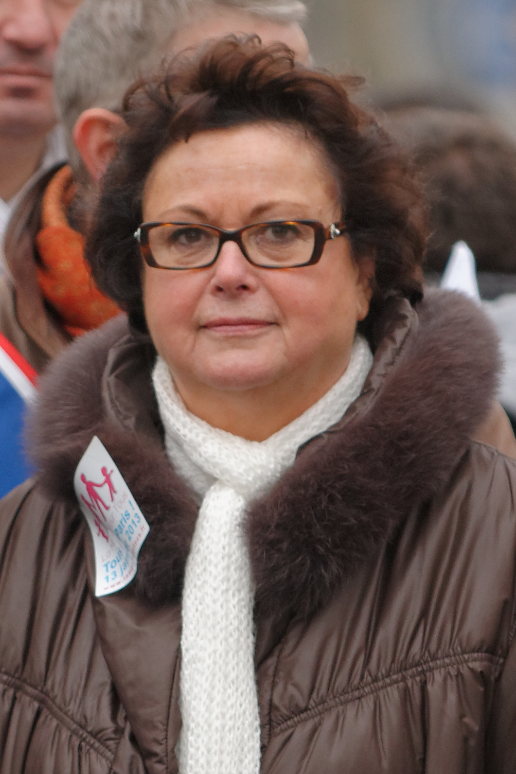 Christine Boutin, demonstration against same-sex marriage in Paris on 13 January 2013 (“Manif pour tous”).